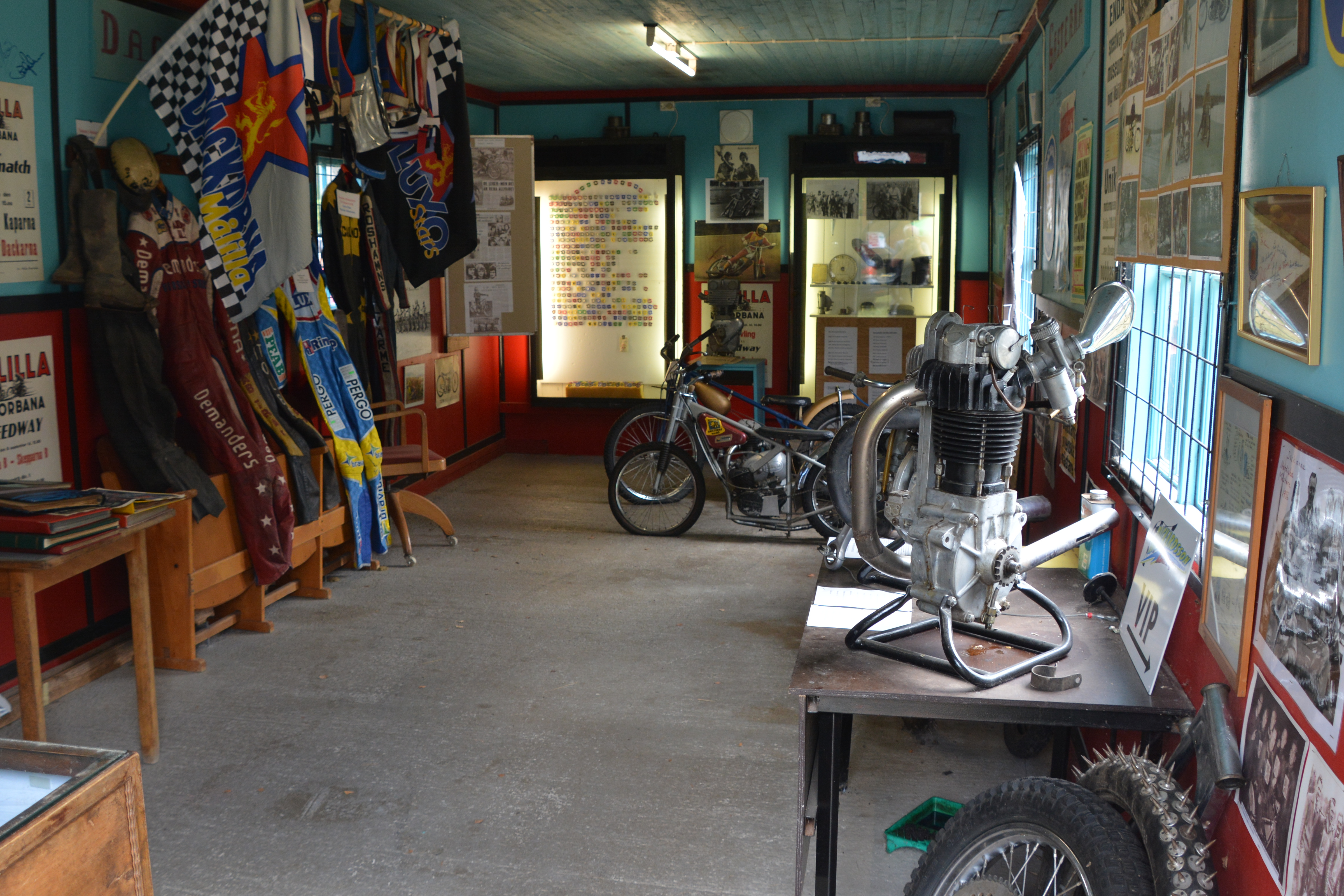 Interior of Speedwaymuseum, Målilla